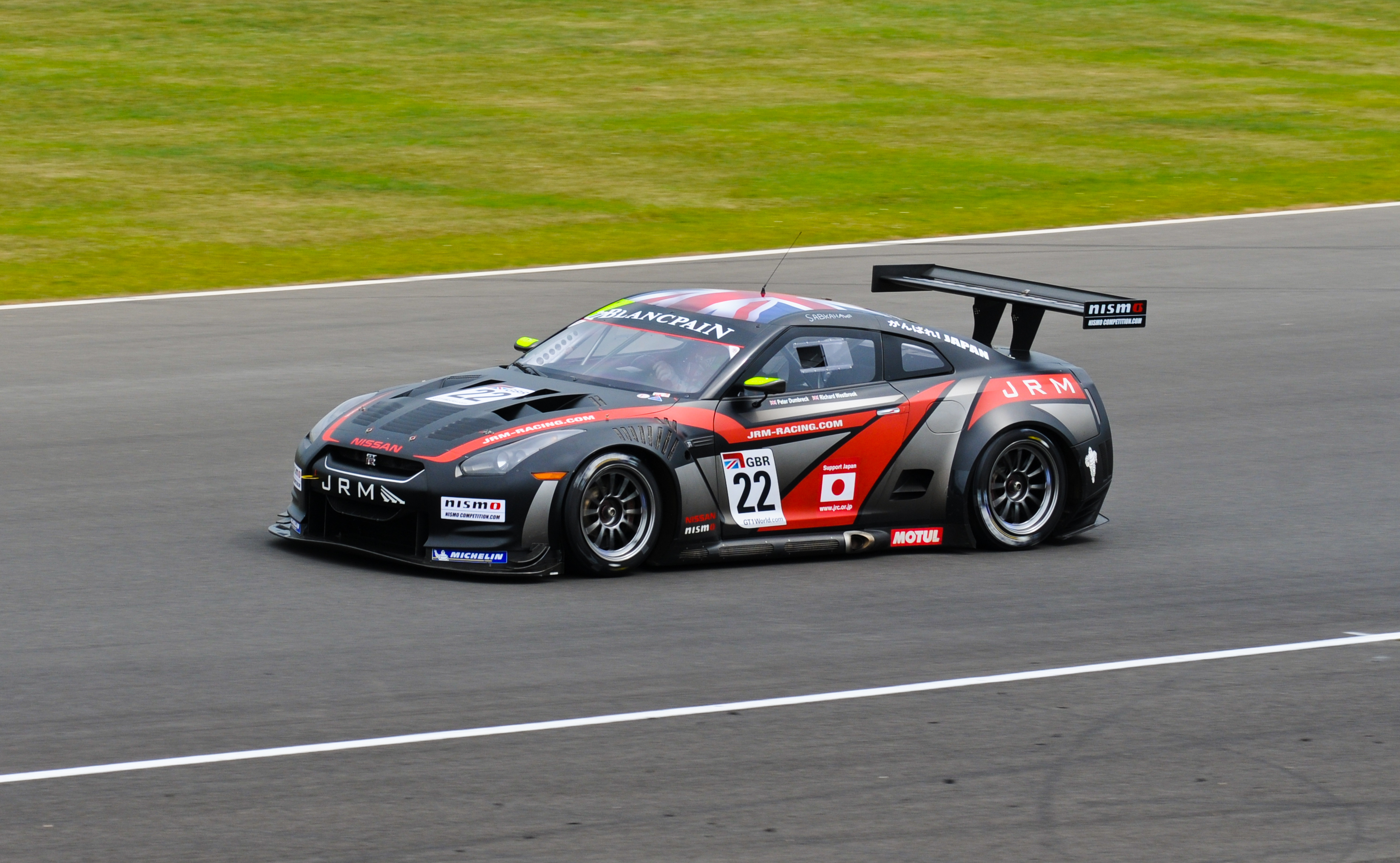 2011 FIA GT1 Silverstone round